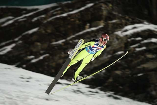 Severin Freund during canceled competition of FIS Ski-Flying World Championships 2012 in Vikersund